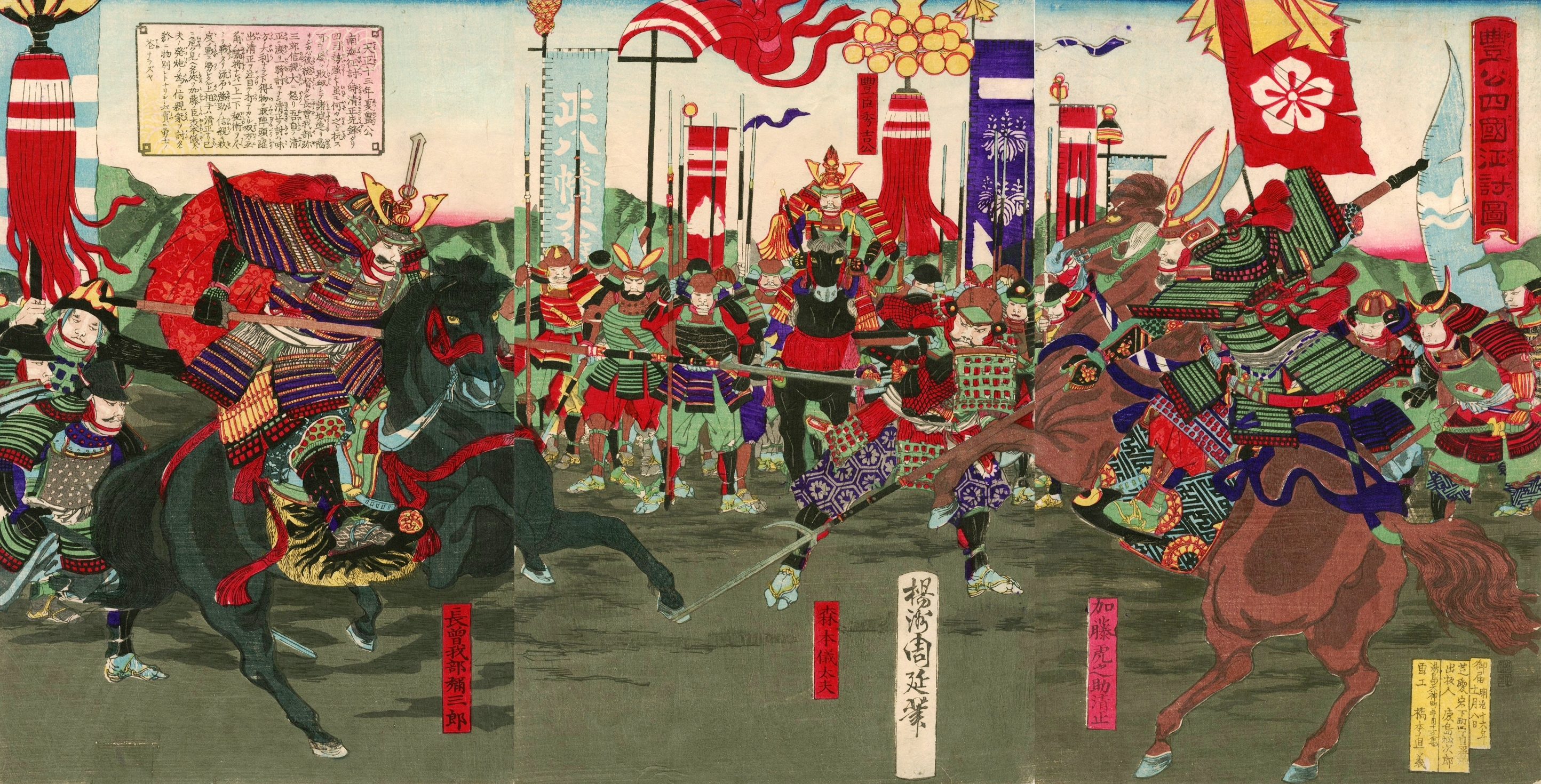 "Hōkō Shikoku Seitō no zu", an ukiyo-e of Toyotomi Hideyoshi's Conqust of Shikoku by Toyohara Chikanobu.